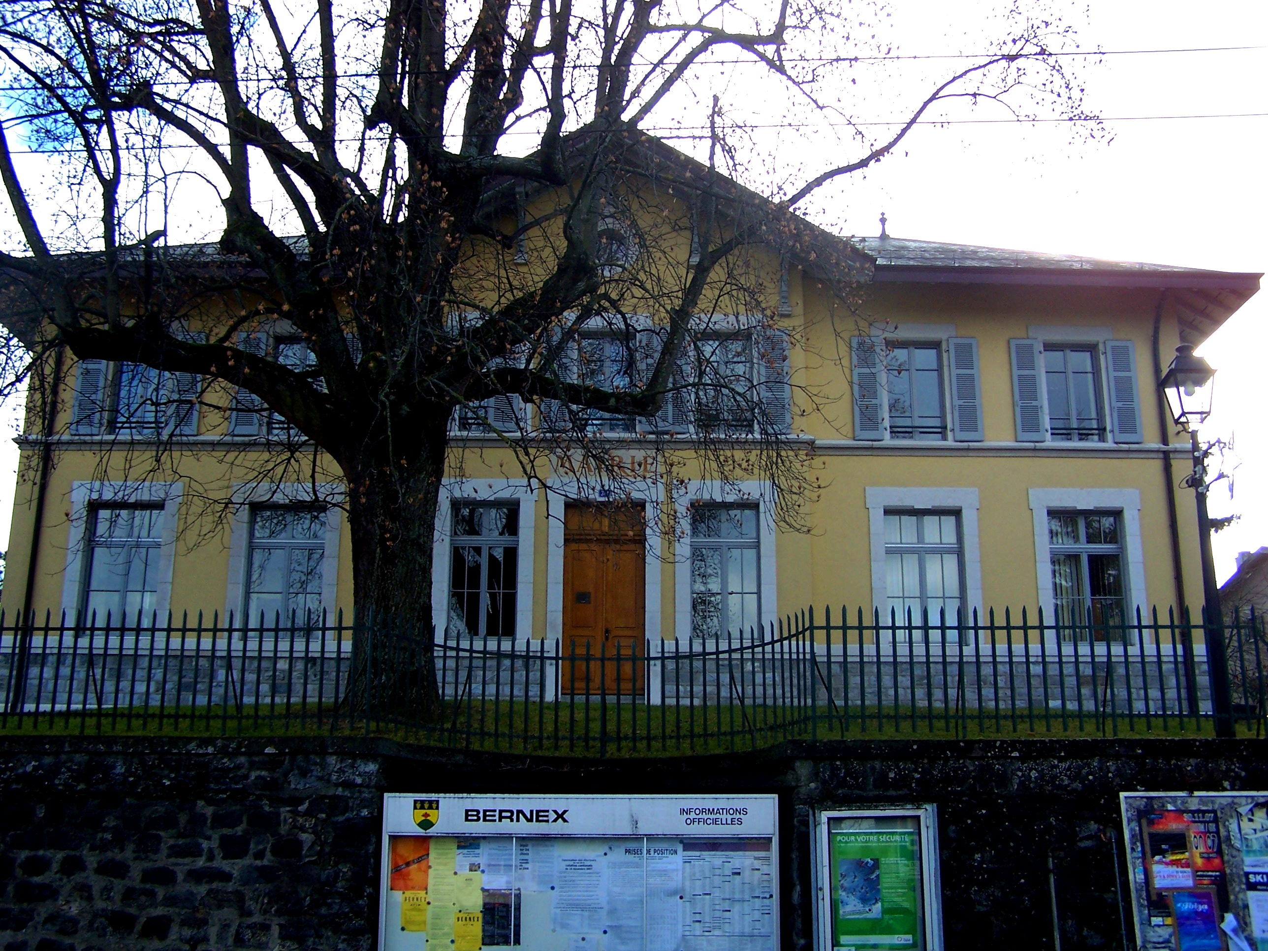 Mairie of Bernex, Canton of Geneva, Switzerland